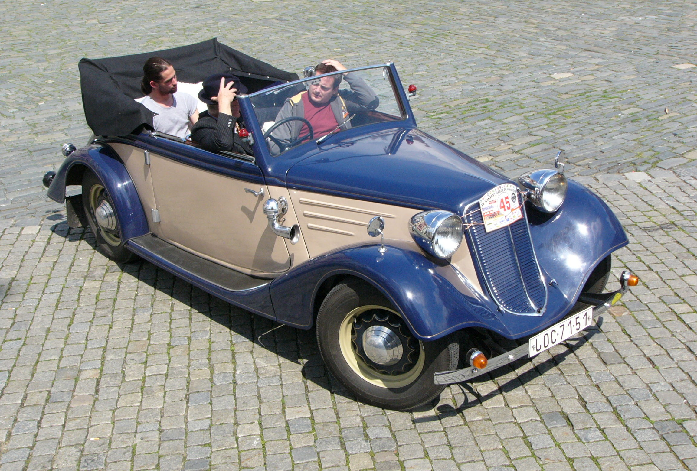 Tatra 75. This car was manufactured in 1937.